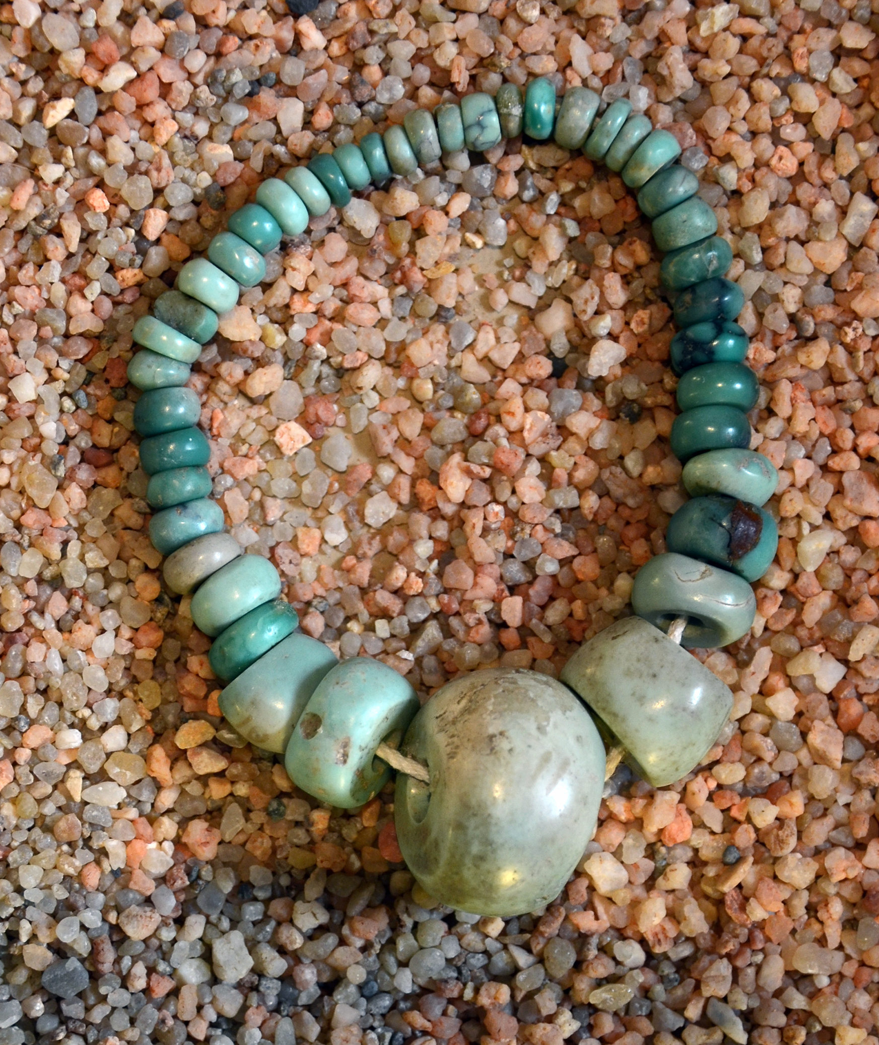 Necklace in callaïs ( this one in variscite ) found in the tumulus of Mané-er-Rhoek near Locmariaquer ( Morbihan, Bretagne, France ).Neolithic, 4500 - 4000 BC. Musée d'Histoire et d'Archéologie de Vannes.